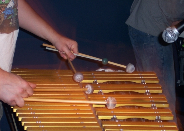 Chris Graham and DJ GC playing vibraphne Sapphire Lounge Columbia, MO USA May 21, 2005